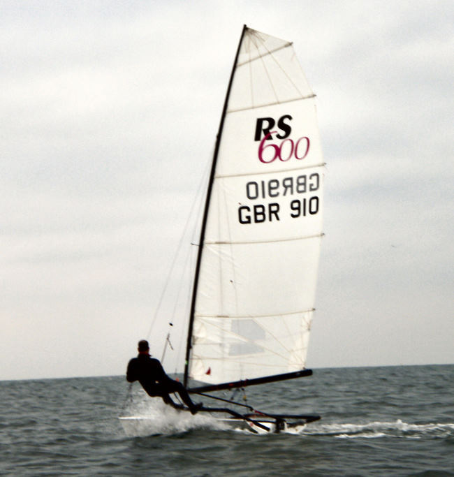 Photograph of an RS600 Sailing Dinghy, sailing off Brighton Sailing Club, Brighton UK.